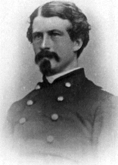 photo of Ferris Jacobs, Jr.